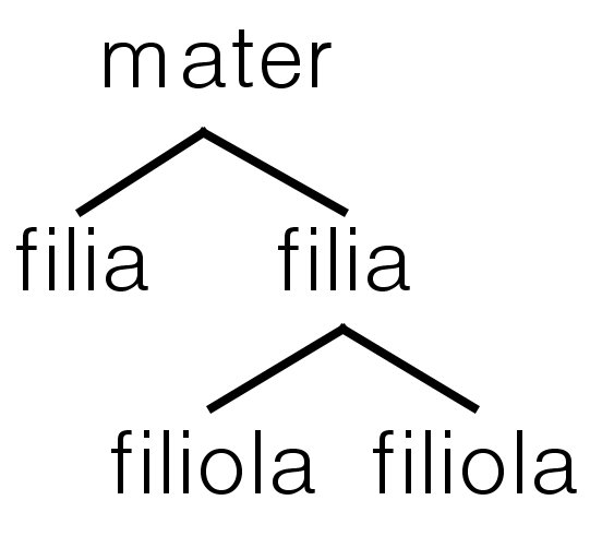 A tree showing c-command in Latin.